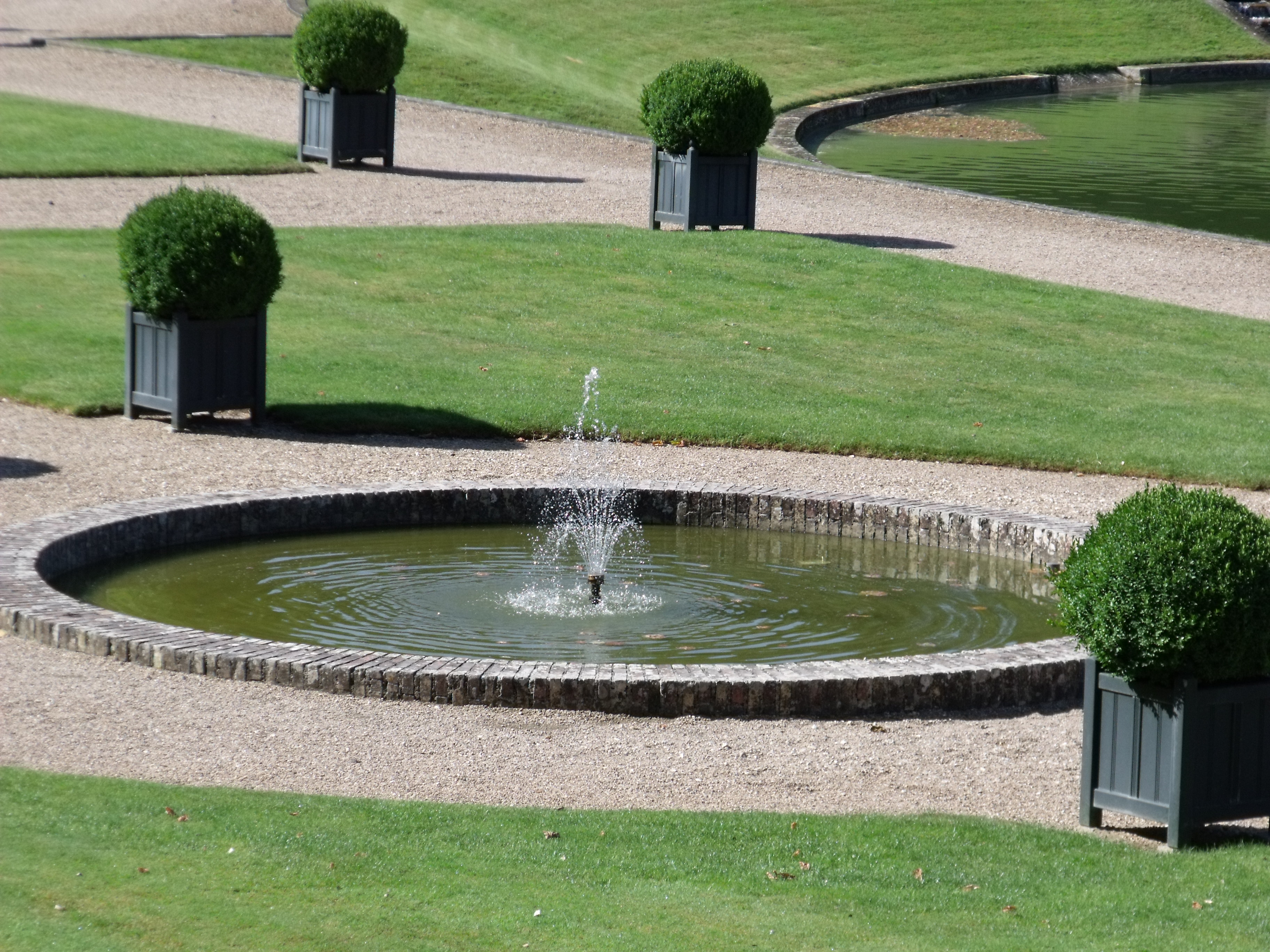 A fountain in the gardens of the Château de Villandry